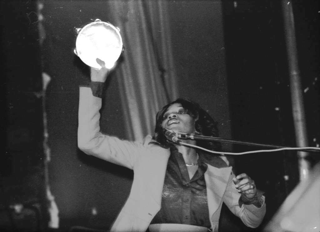 This is Gloria Jones performing with T.Rex in March 1976 in Glasgow!